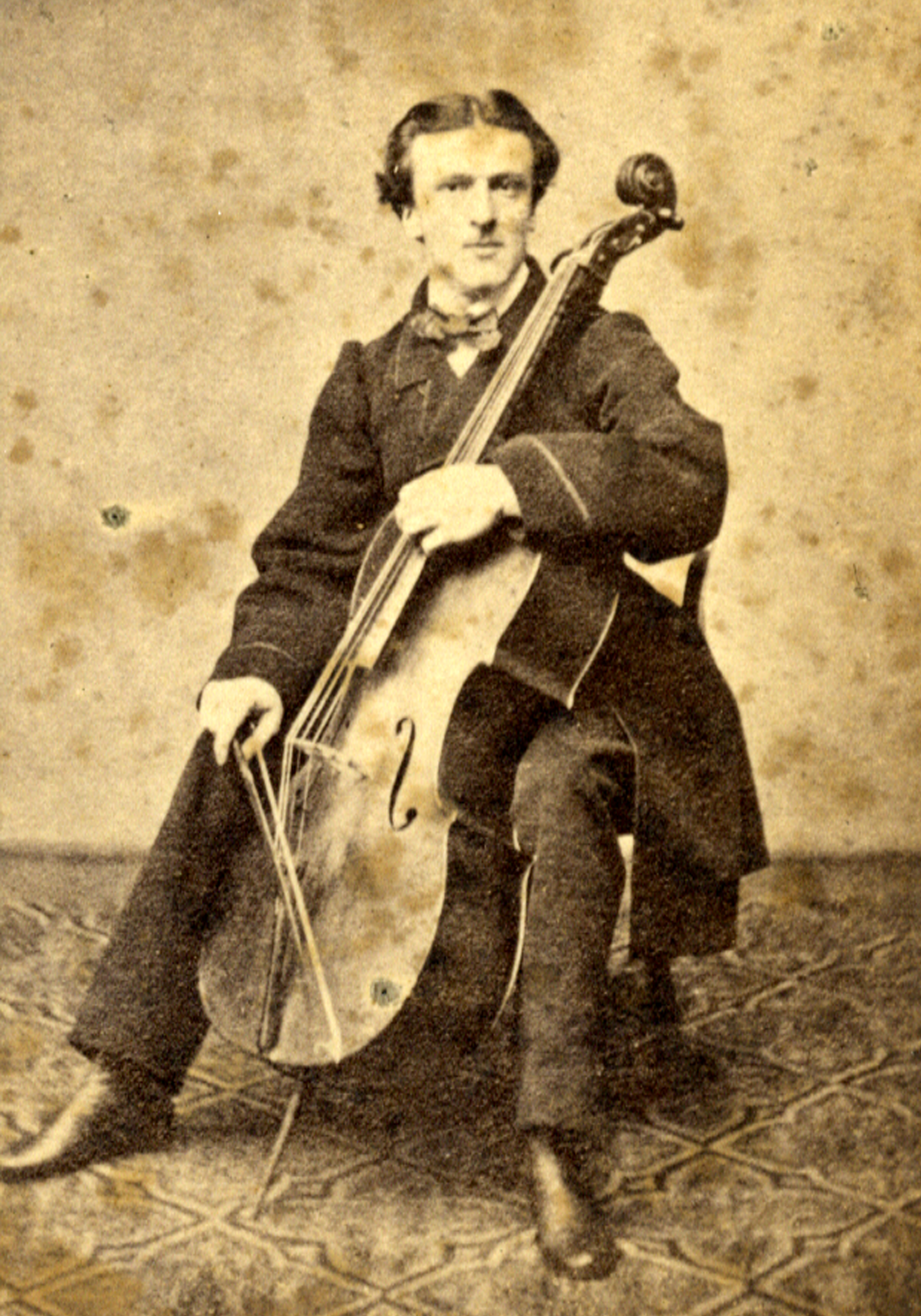 Daniël de Lange with cello